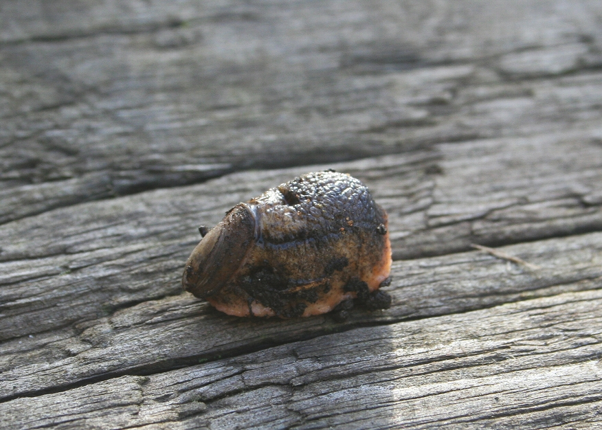 Testacella maugei is one of three species of shelled slug found in the United Kingdom. They are predators of earthworms and other slugs.